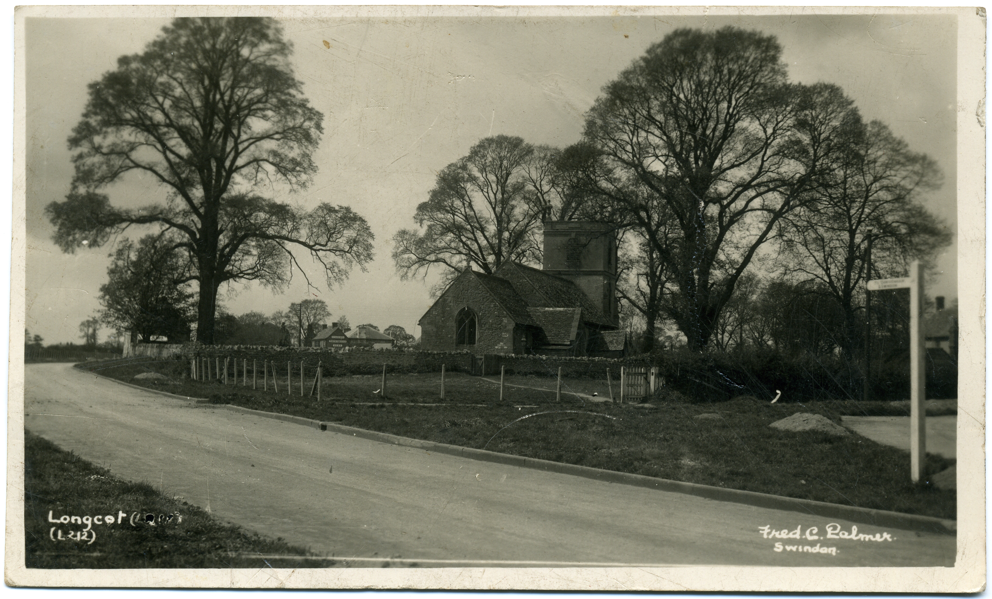 Postcard of Longcot, Vale of White Horse, England, showing the parish church. The stone urns on the tower were removed in the 1970s for safety. The photographer was Fred C. Palmer of Tower Studio, Herne Bay, Kent ca. 1905-20, and of 6 Cromwell Street, Swindon ca. 1920-1936. He is believed to have died 1936-39. The postcard is postmarked 1935, so the photo may have been taken close to the end of his career. This print has darkened with age, but it would be inappropriate to adjust the brightness because detail, e.g. clouds in the sky, would be lost. Border The remaining border of this image is important for researchers of this photographer. Some photographers trimmed their images more than others, and Palmer has a reputation for producing smaller postcards than other early 20th century UK photographers. He took his own photos, developed them in-house onto postcard-backed photographic paper and trimmed them himself. It is worth adding that during hand-developing the border is actively masked with equipment which both crops the picture and causes the white frame or border to appear on the paper. This frame is part of the design and is one of the reasons why the quality of Palmer's work is so interesting, and why there is an article and category for him on English Wiki. Researchers need to see exactly where the edge of the postcard is. Thank you for taking the time to read this.